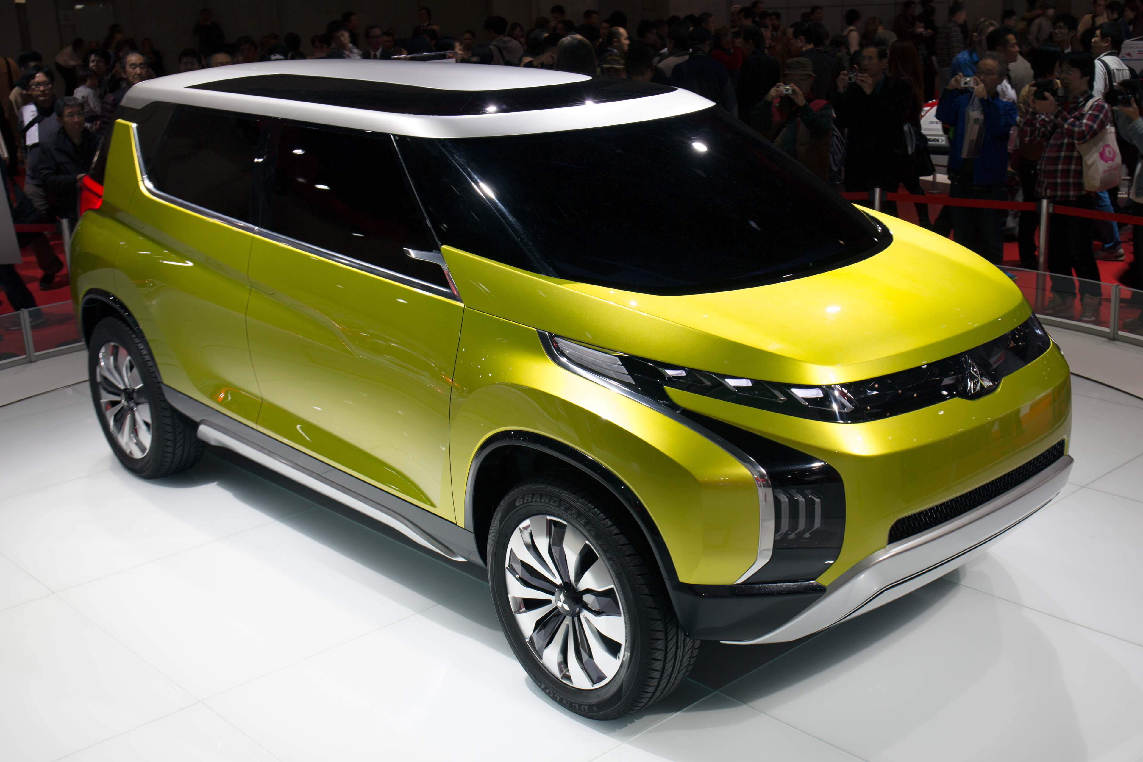 Tokyo Motor Show 2013: Mitsubishi Concept AR